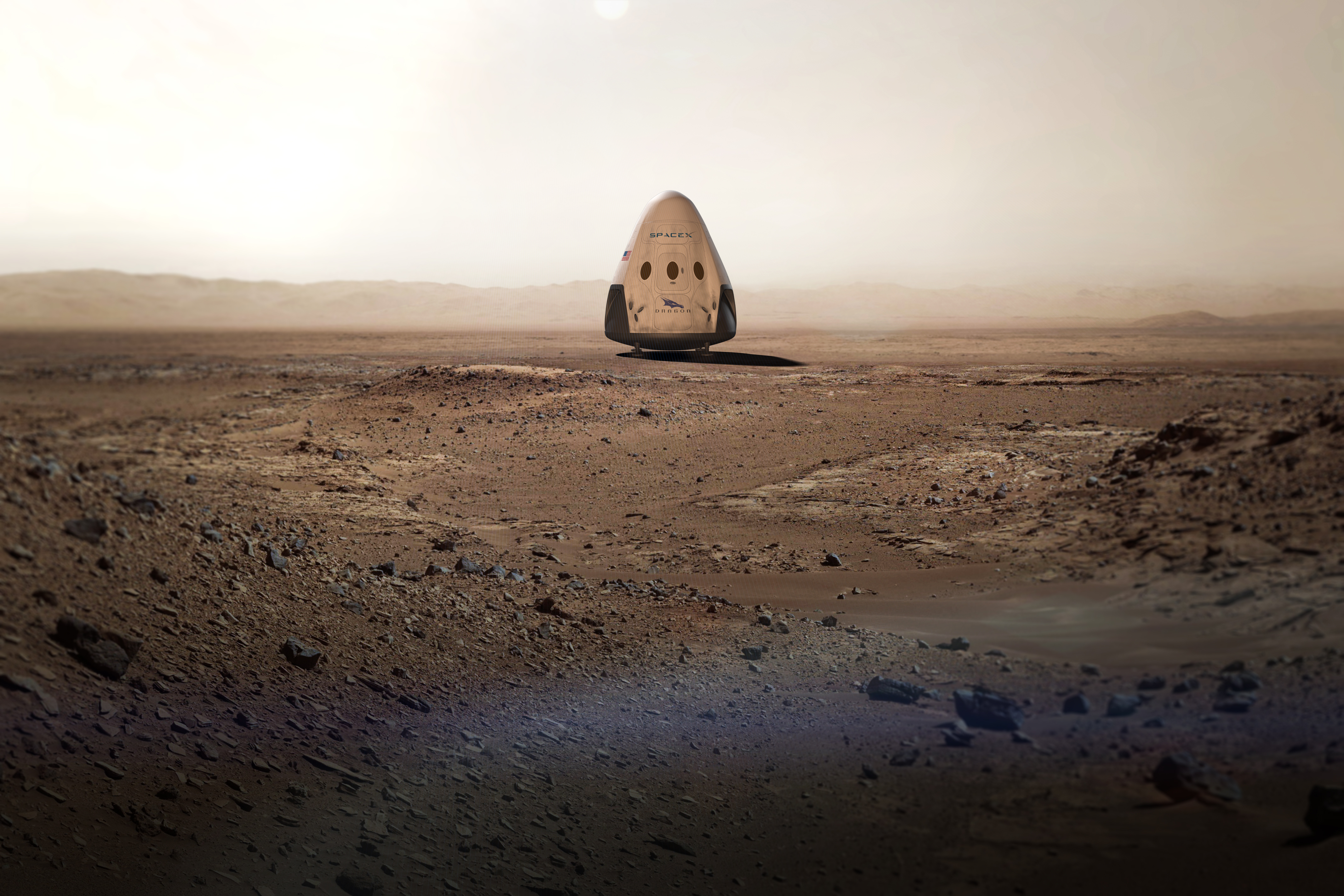 Concept art of sending Dragon to Mars.